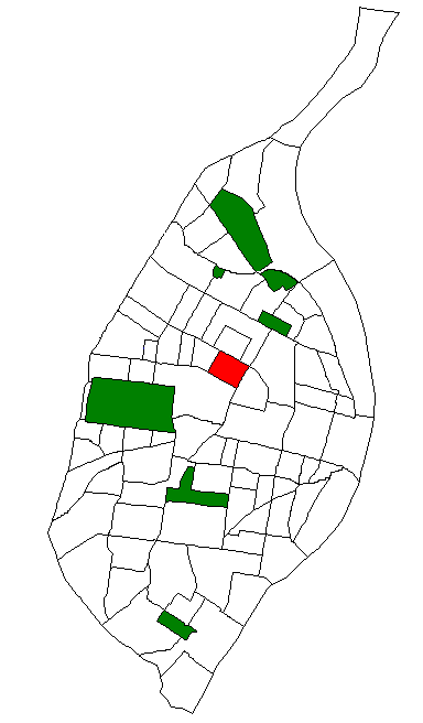 Map of St. Louis Neighborhood #58 (Vandeventer)